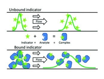 Explanatory figure of the FIDA principle